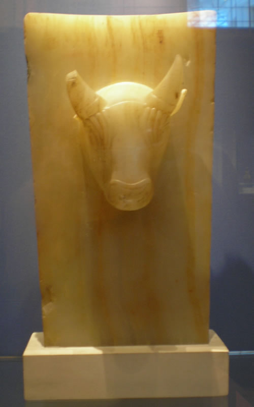 Funearary stela, South Arabia